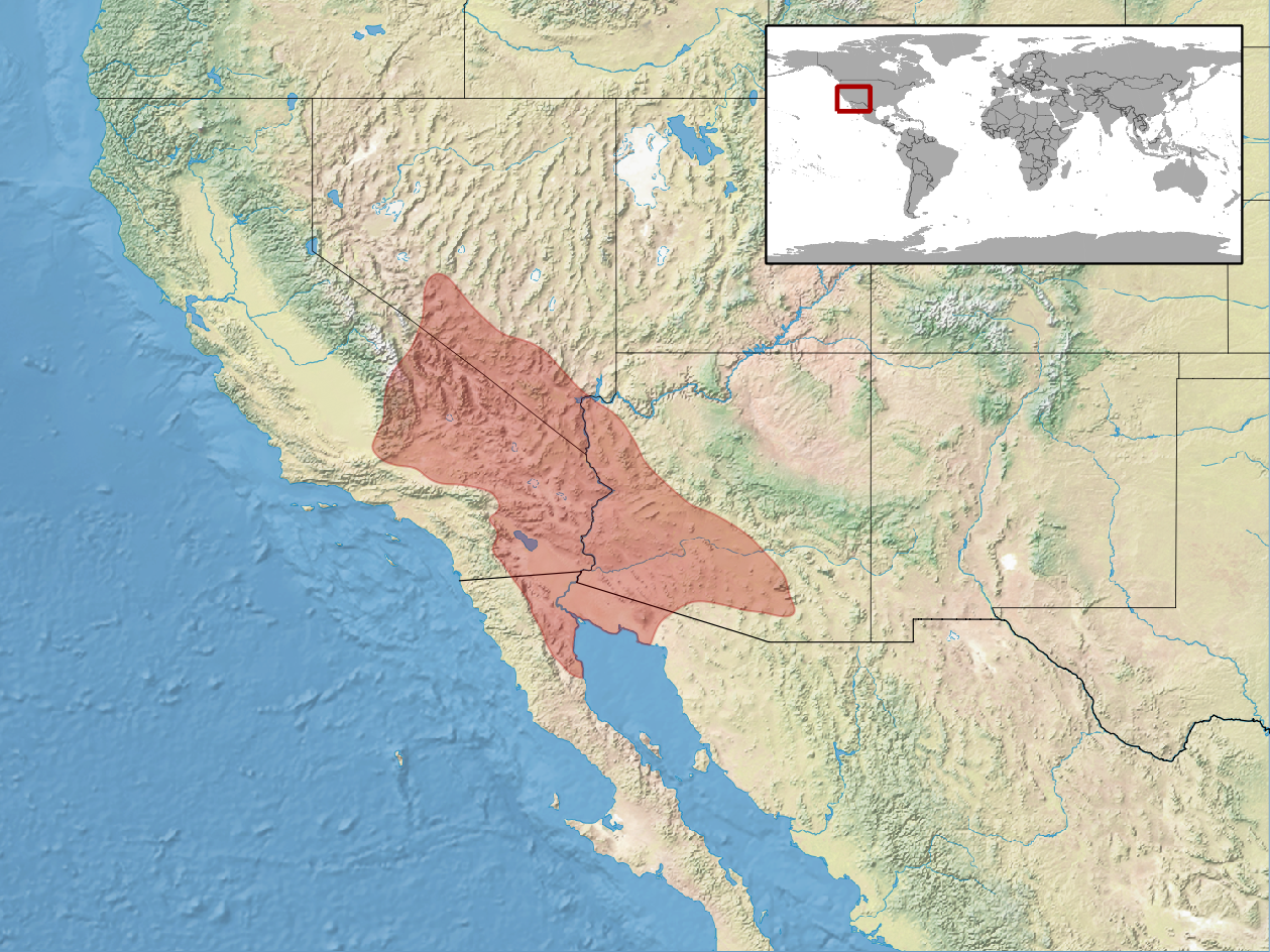 geographic distribution of Chionactis occipitalis (Native: Mexico; United States)